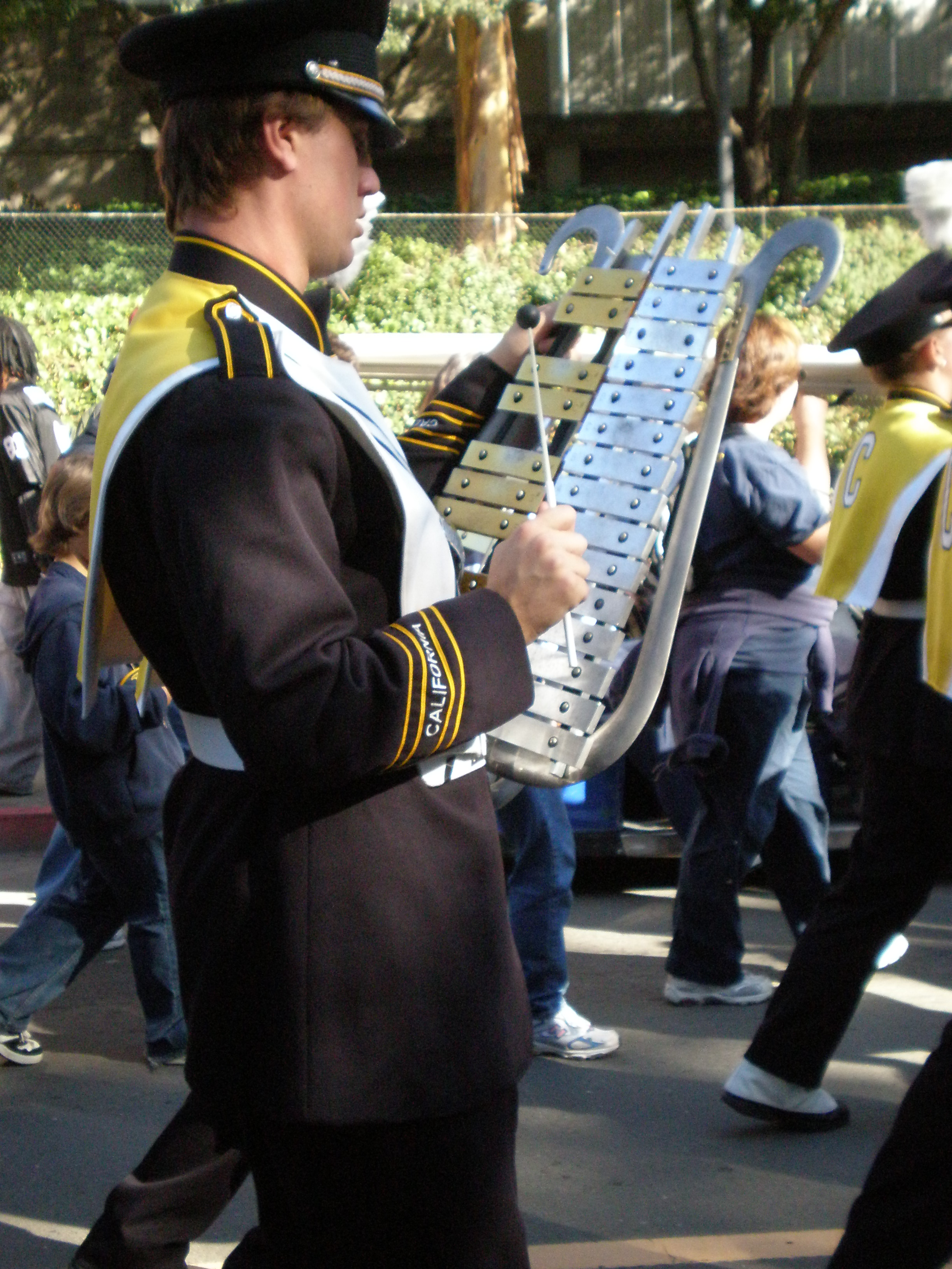 The University of California Marching Band en route to Memorial Stadium for the 2008 Big Game.